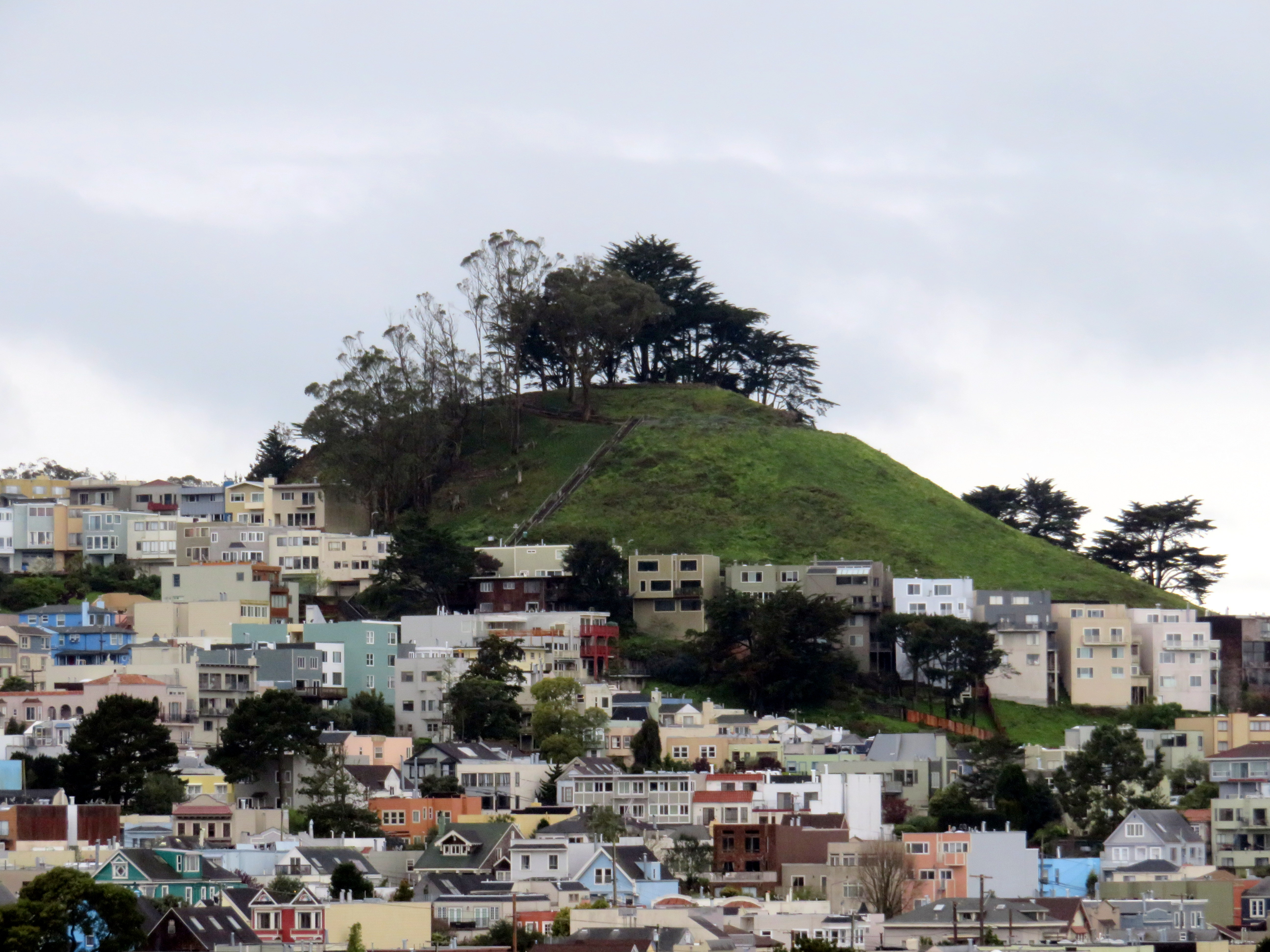 Grandview Park viewed from UCSF Parnassus in March 2019